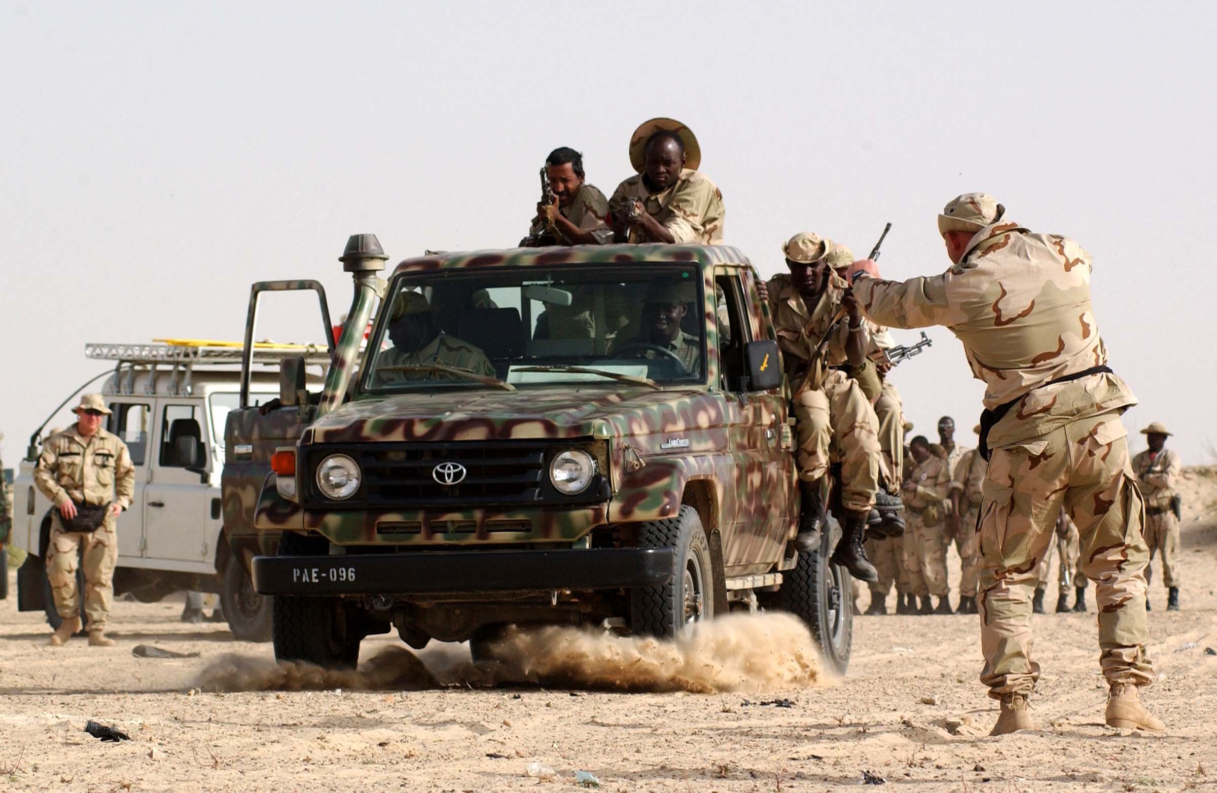 Soldiers from the 1st Battalion, 10th Special Forces Group (Airborne) teach mounted infantry tactics to soldiers from the Malian Army in Timbuktu, Mali. U.S. Army Special Forces, assigned to Special Operations Command Europe, are training selected military units in Mali and Mauritania on mobility, communications, land navigation, and small unit tactics.